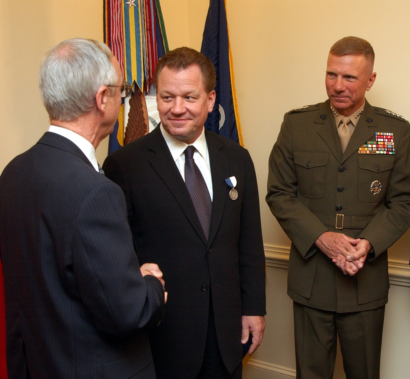 Secretary of the Navy Gordon R. England presents author James Bradley the Department of the Navy Superior Public Service Award for his contributions in keeping alive the history of the Navy and Marine Corps. Commandant of the Marine Corps Gen. Michael Hagee was also on hand to congratulate the best-selling author. Bradley has authored two books: “Fly Boys” and “Flags of our Fathers.” U.S. Navy photo by Chief Journalist Craig P. Strawser.